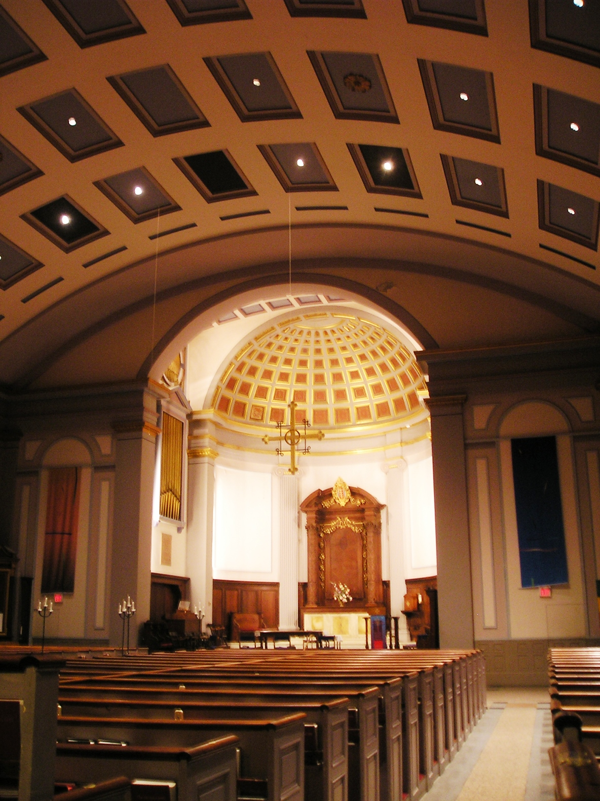 Inside the Cathedral Church of St. Paul in downtown Boston, Massachusetts as photographed 05 February 2008.